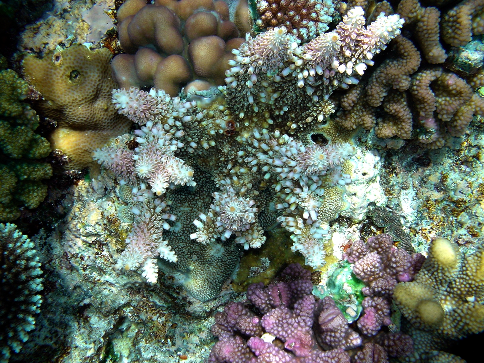 coral reefs. The picture was taken in Papua New Guinea